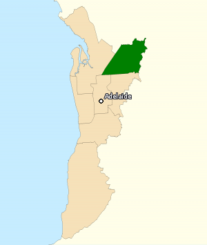 This image incorporates data that is: © Commonwealth of Australia (Australian Electoral Commission) 2009 Division of Makin 2010